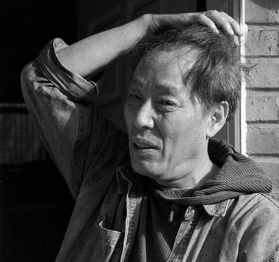 Lee Je-ha